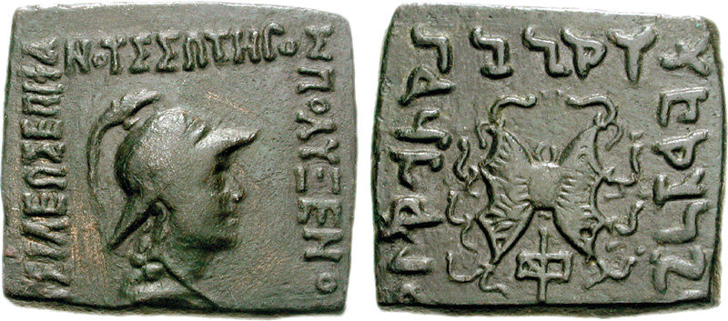 Polyxenos square bilingual